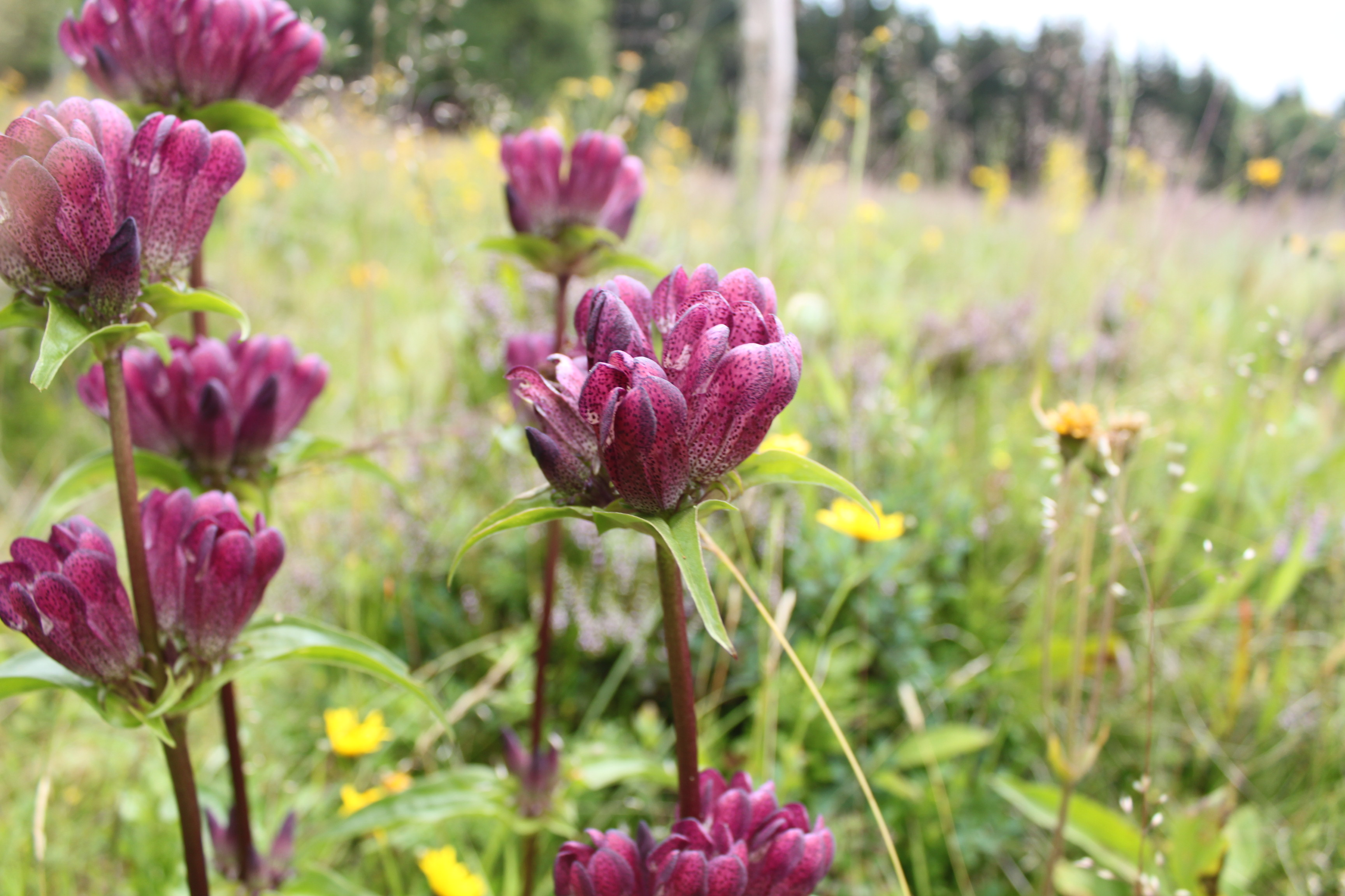 Natural Monument "Kvilda-Pod políčky" - southern part of the area with blossoms of Gentiana pannonica and Solidago virgaurea